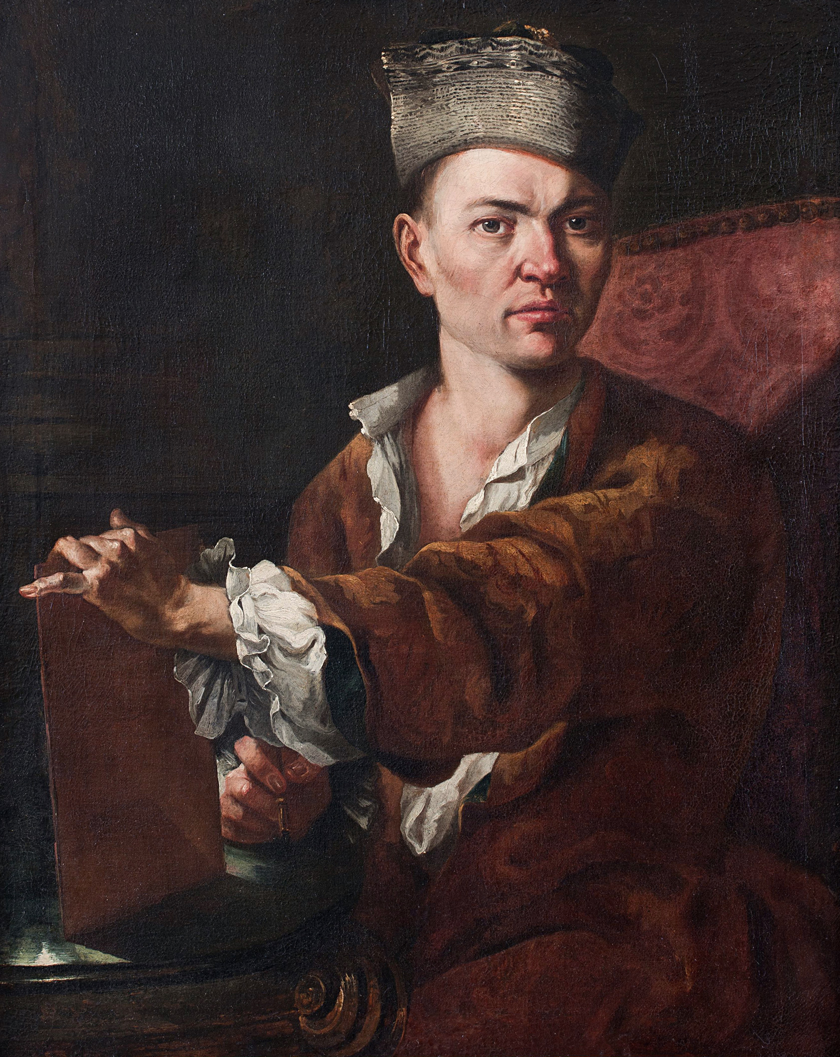 Autoportrait of Paul Troger at the age of 30. Easel painted around 1728/1730 Retouched and downsized picture found on Post-Processing: fade correction, noise reduction and contrast enhancement